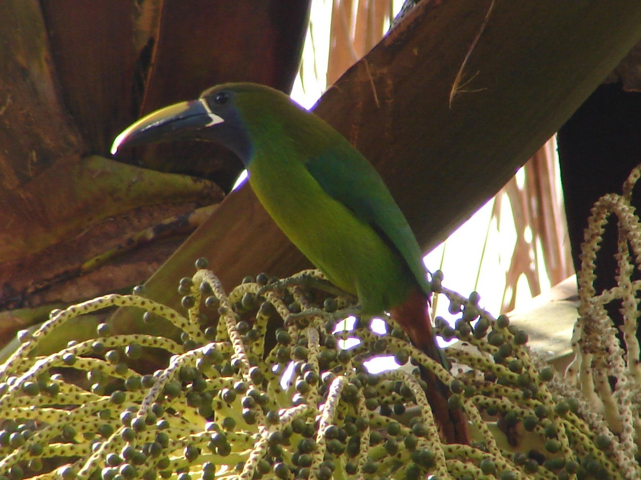 Emerald or Blue-throated Toucanet Aulacorhynchus prasinus/caeruleogularis caeruleogularis) in La Amistad